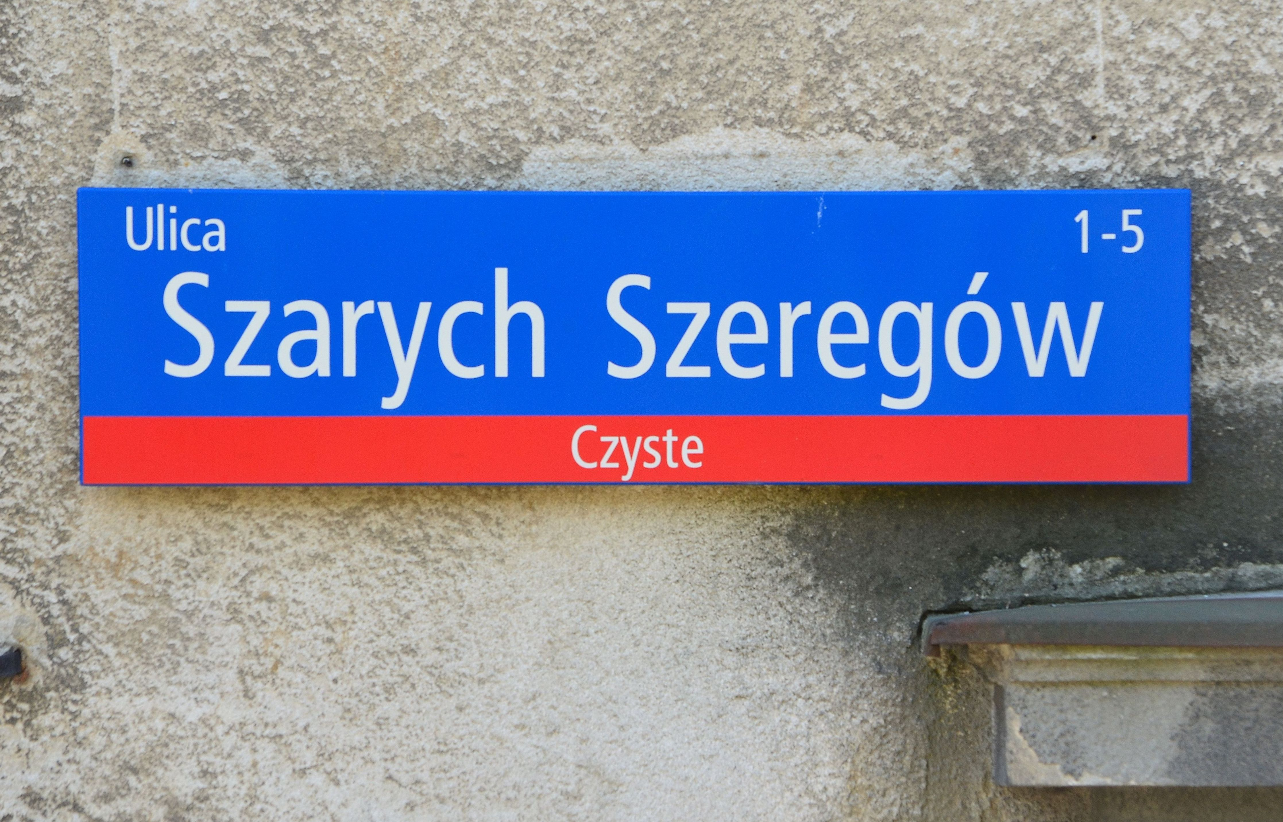 Warsaw City Information street sign on Szare Szeregi Street in Warsaw